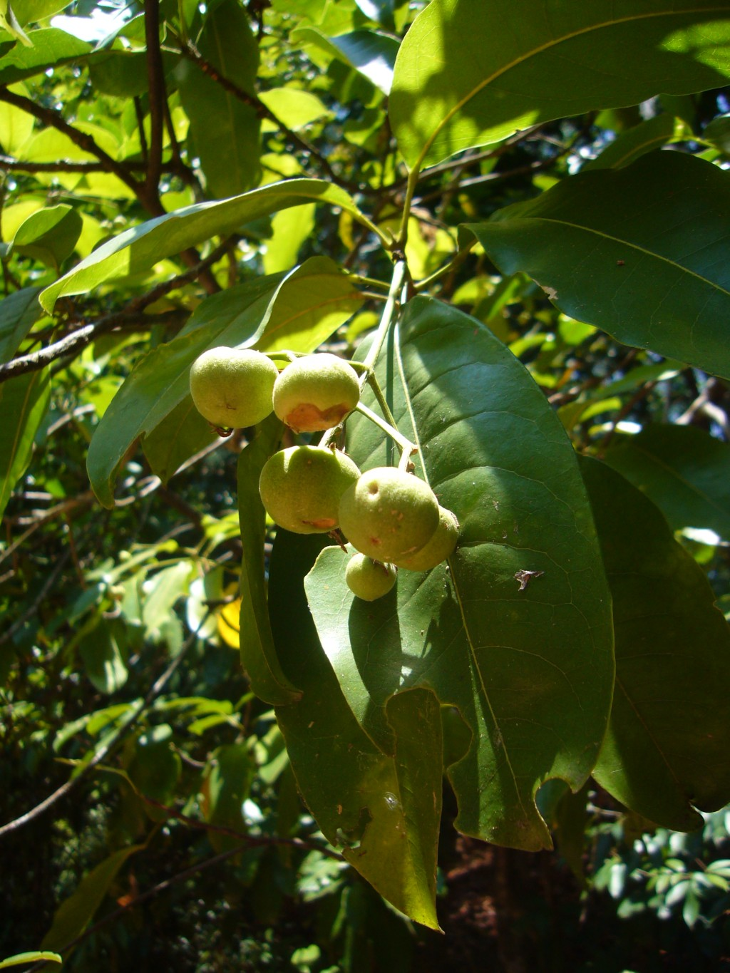 Fruits and leaves of Acronychia pedunculata at Udawattakele Forest, Kandy, Sri Lanka.